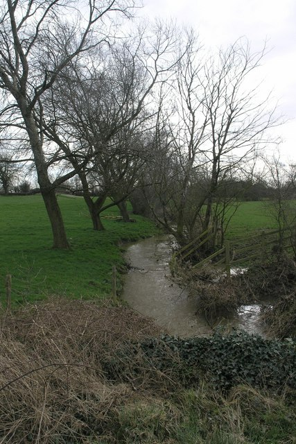 Tweed River Tweed River has just passed beneath the Ashby de la Zouch canal.